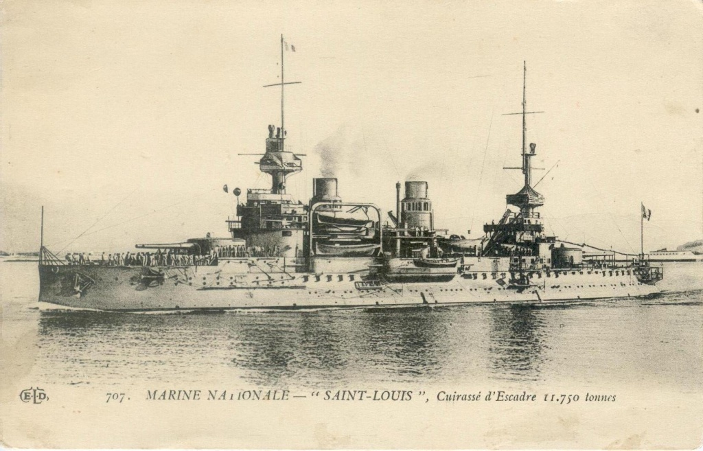 French battleship Saint Louis